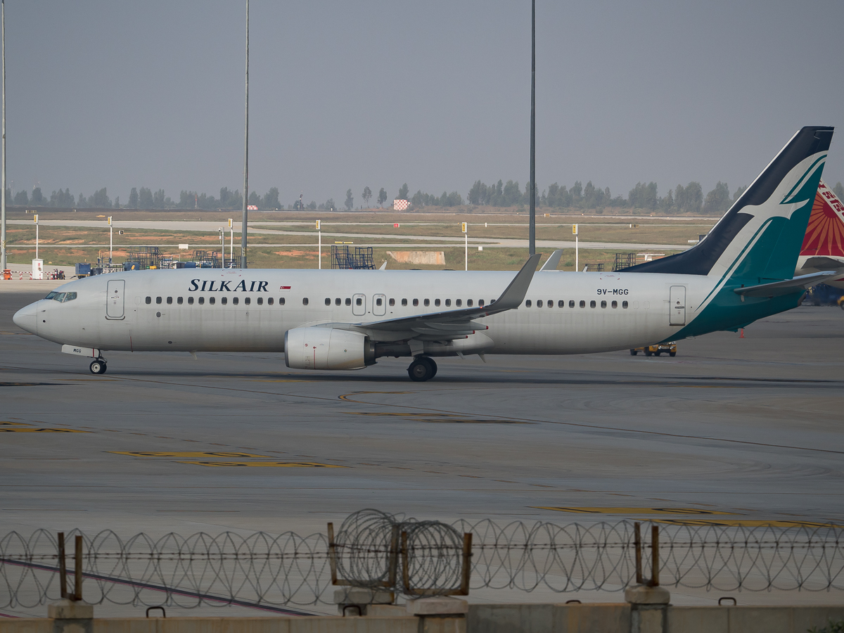 SilkAir Boeing 737-800 registered 9V-MGG at Kempegowda Intl Airport Bangalore